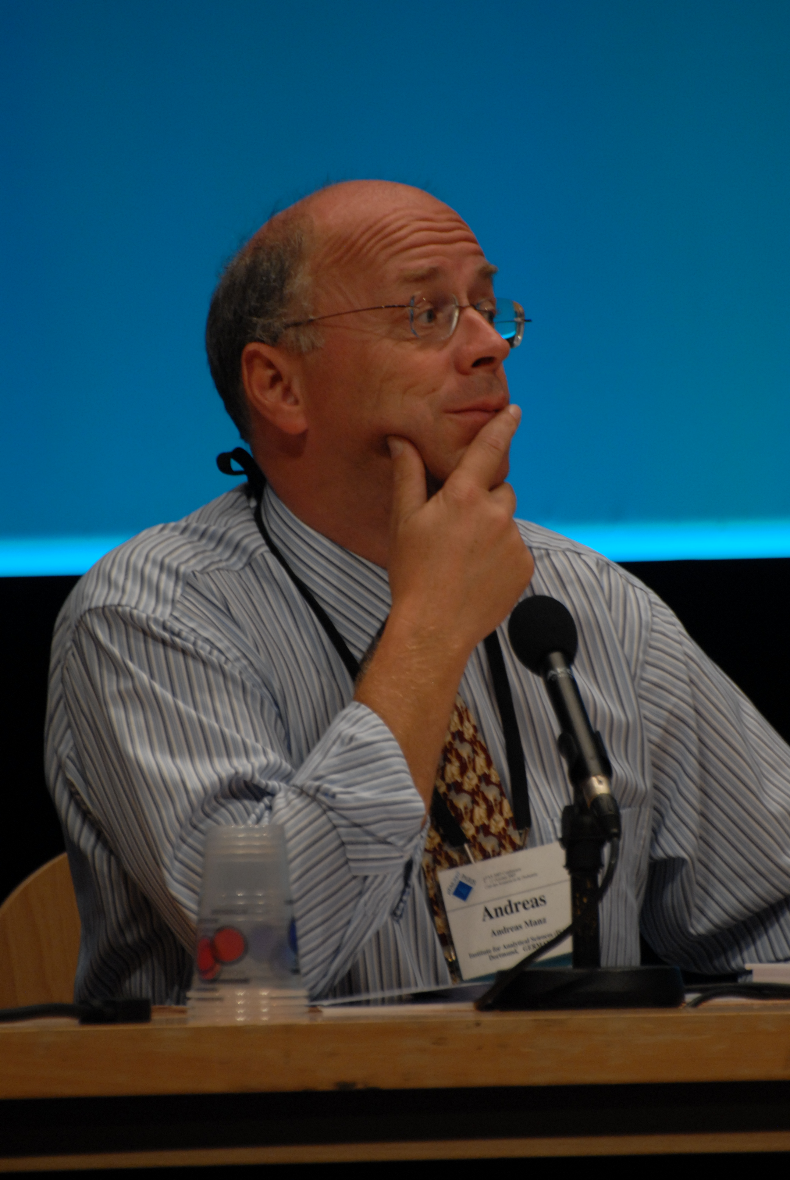 Andreas Manz at the 11th International Conference on Miniaturized Systems for Chemistry and Life Sciences (µTAS 2007 Conference).